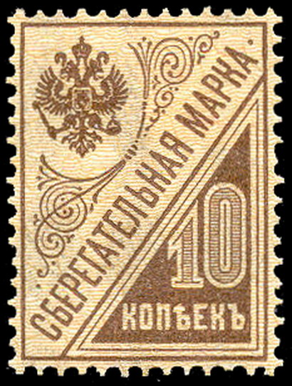 Savings stamp of Russia, 1900, 10k.